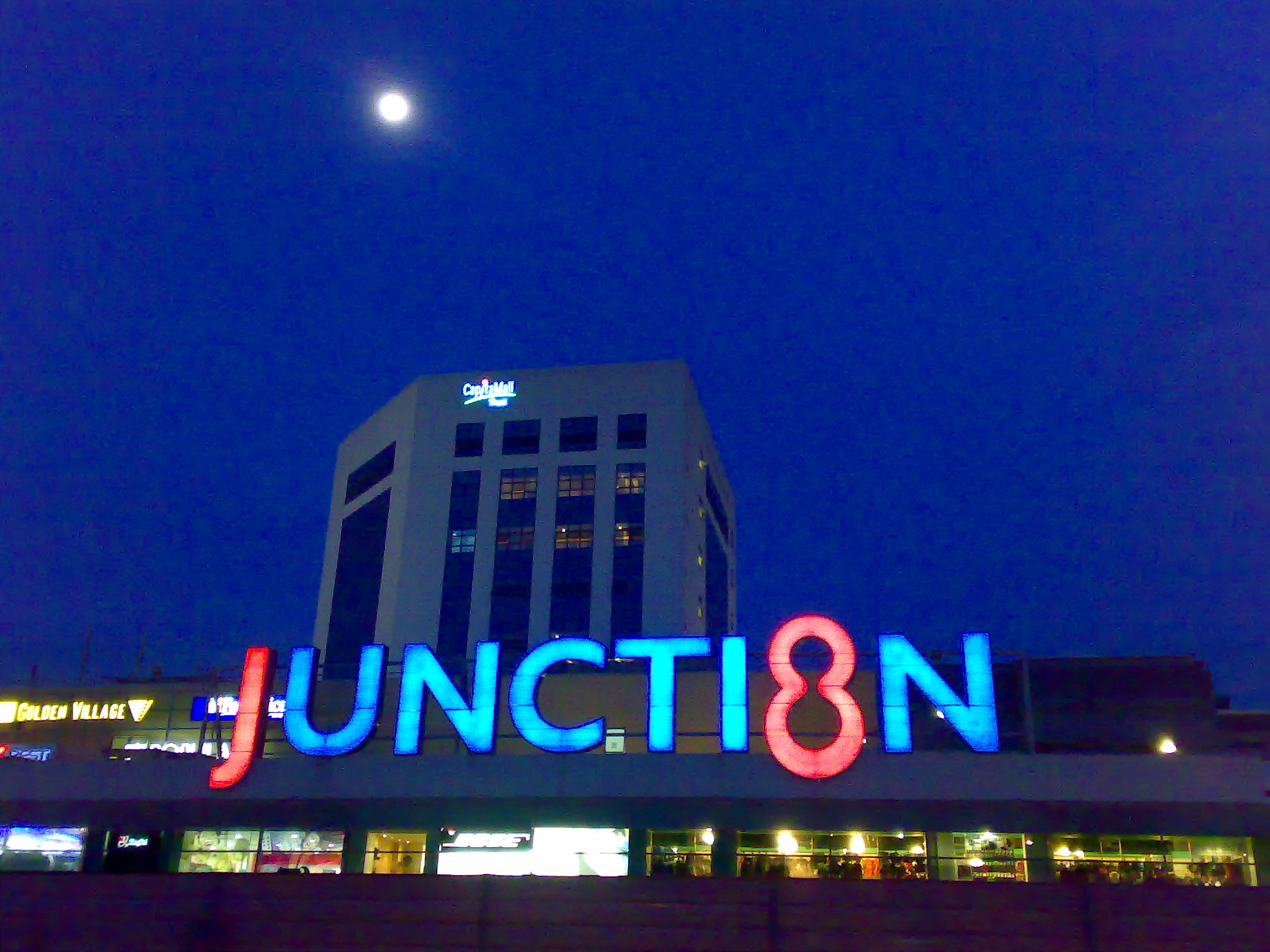 Bishan New Town's Junction 8 at dusk